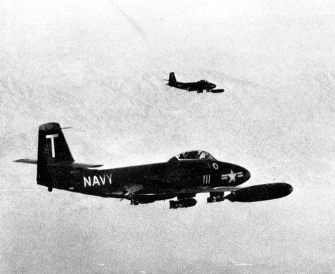 Bomb-ladden U.S. Navy McDonnell F2H-2 Banshees of Fighter Squadron VF-11 "Red Rippers" en route to a target in Korea. VF-11 was assigned to Carrier Air Group 101 (CVG-101) aboard the the aircraft carrier USS Kearsarge (CVA-33) for a deployment to Korea from 11 August 1952 to 17 March 1953.